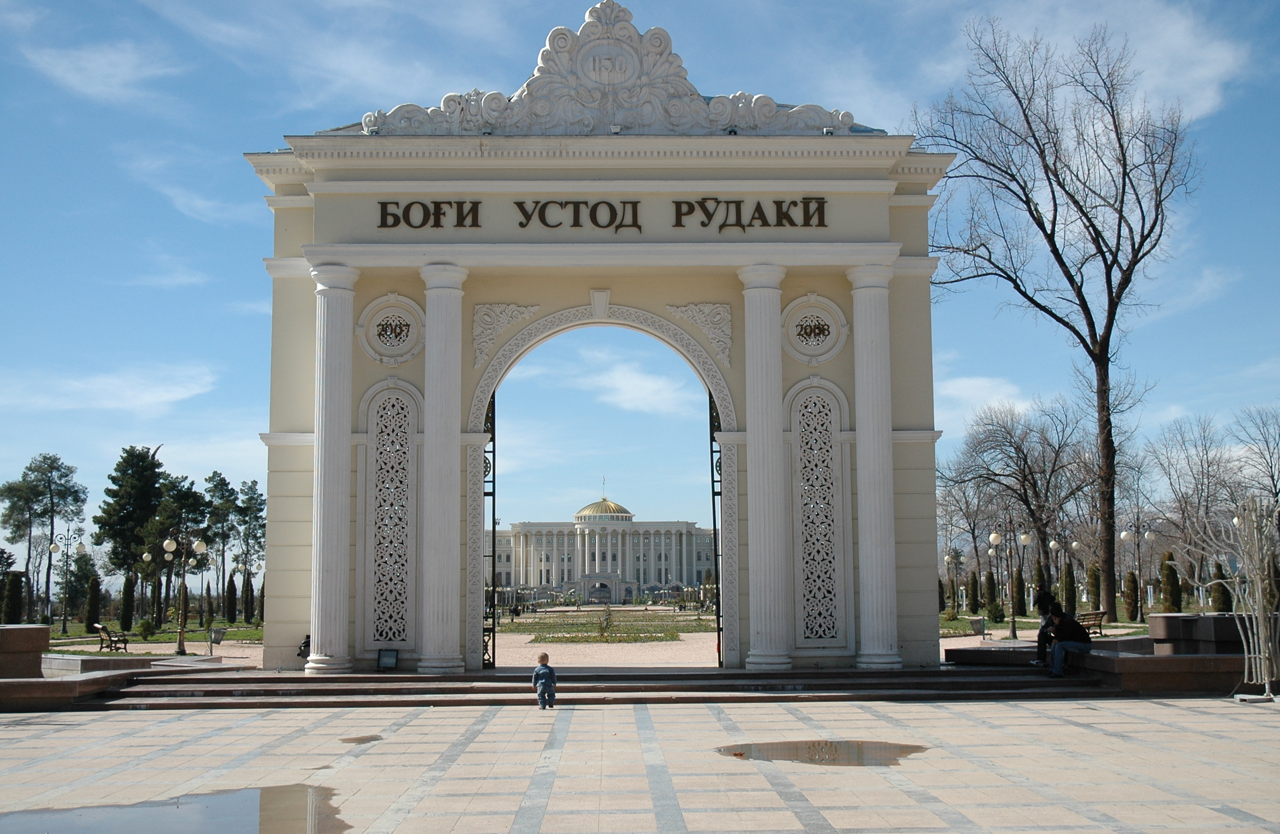 The Rudaki Park in Dushanbe, Tajikistan